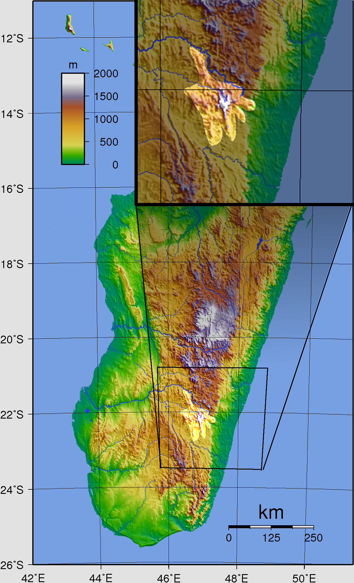 A map that shows the location of the Andringitra Massif in Madagascar.